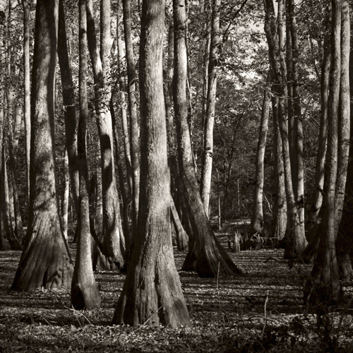 A view of the Cypress Swamp the Natchez Trace passes beside, between Jackson and Kosciusko, Mississippi.